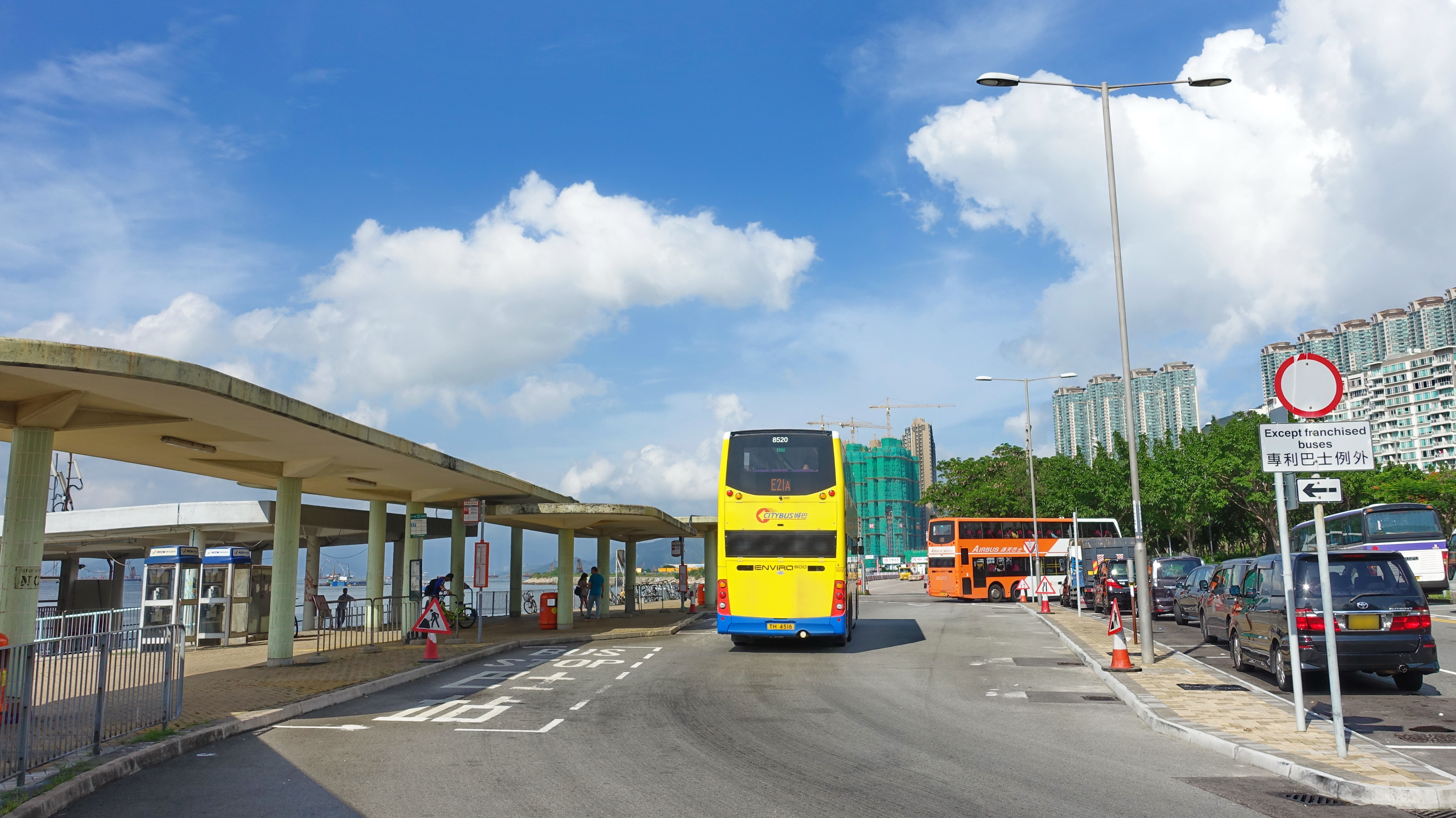 Tung Chung New Development Ferry Pier, Hong Kong.